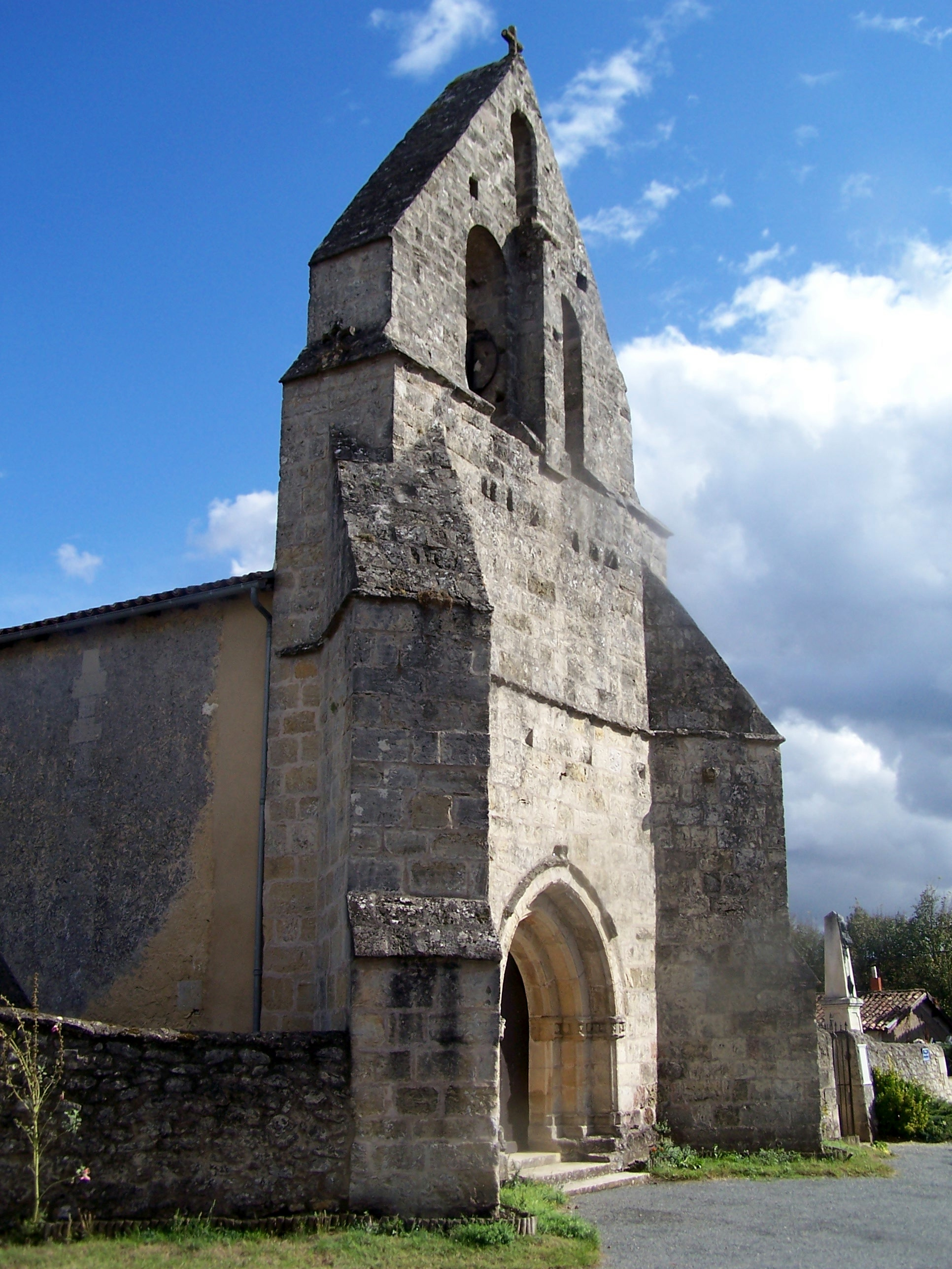 Saint John the Baptist church of Gornac (Gironde, France)